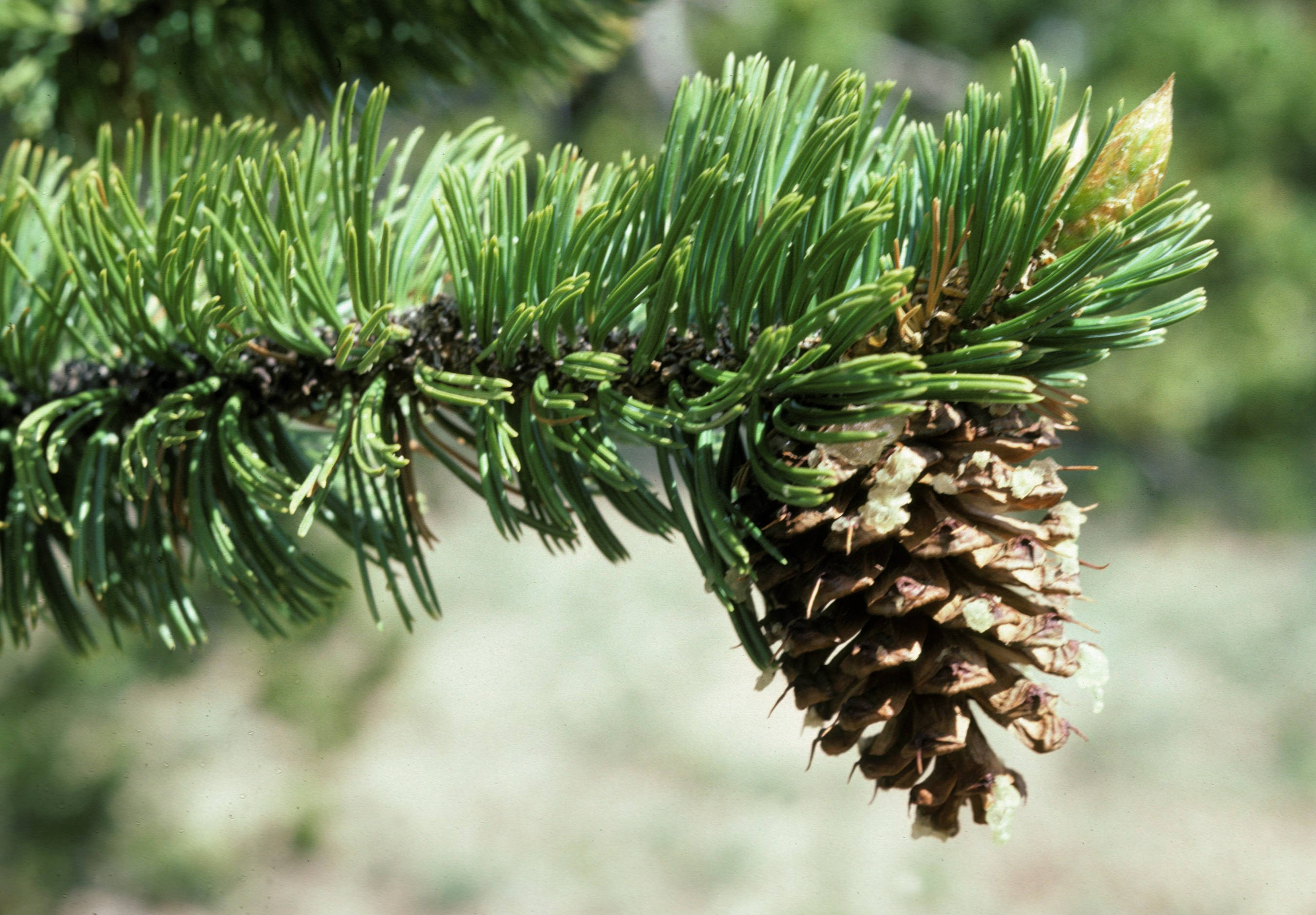 Pinus aristata foliage and open cone.